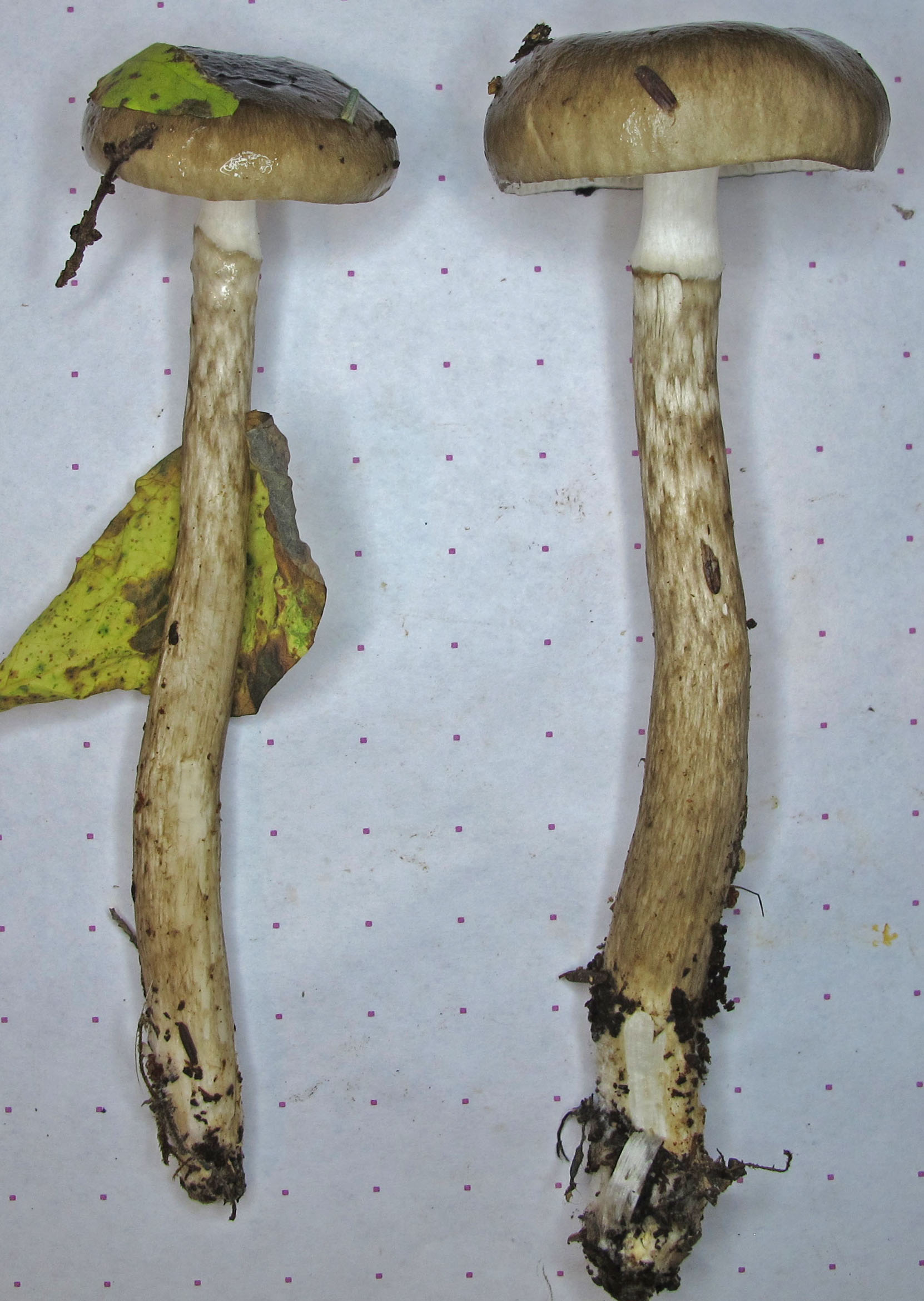 Fruit bodies of the agaric fungus Hygrophorus olivaceoalbus (Fr.) Fr. Specimens collected in Clatsop Co., Oregon, USA. "Notes: Found near Sunset Highway rest area, in a mixed forest (alder + PNW conifers)."